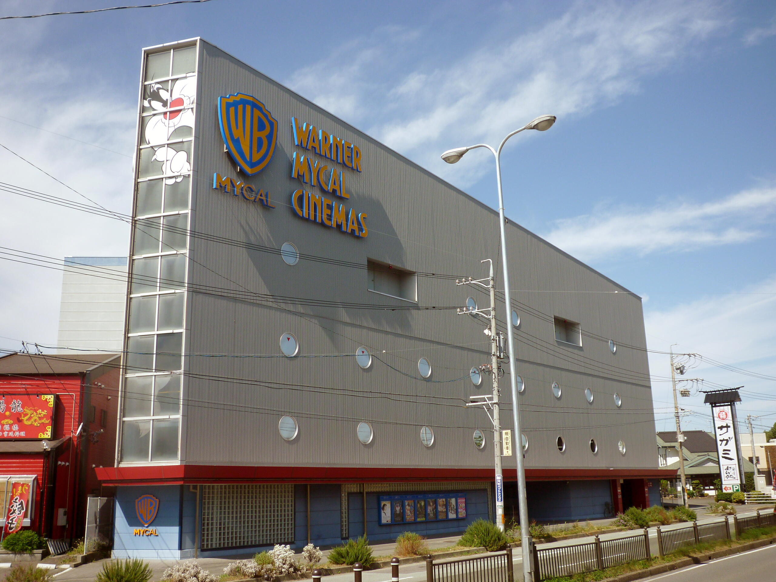 Multiplex "Warner Mycal Cinemas Tsu" in Tsu, Mie, Japan.It is adjacent to Shopping center "Tsu SATY".